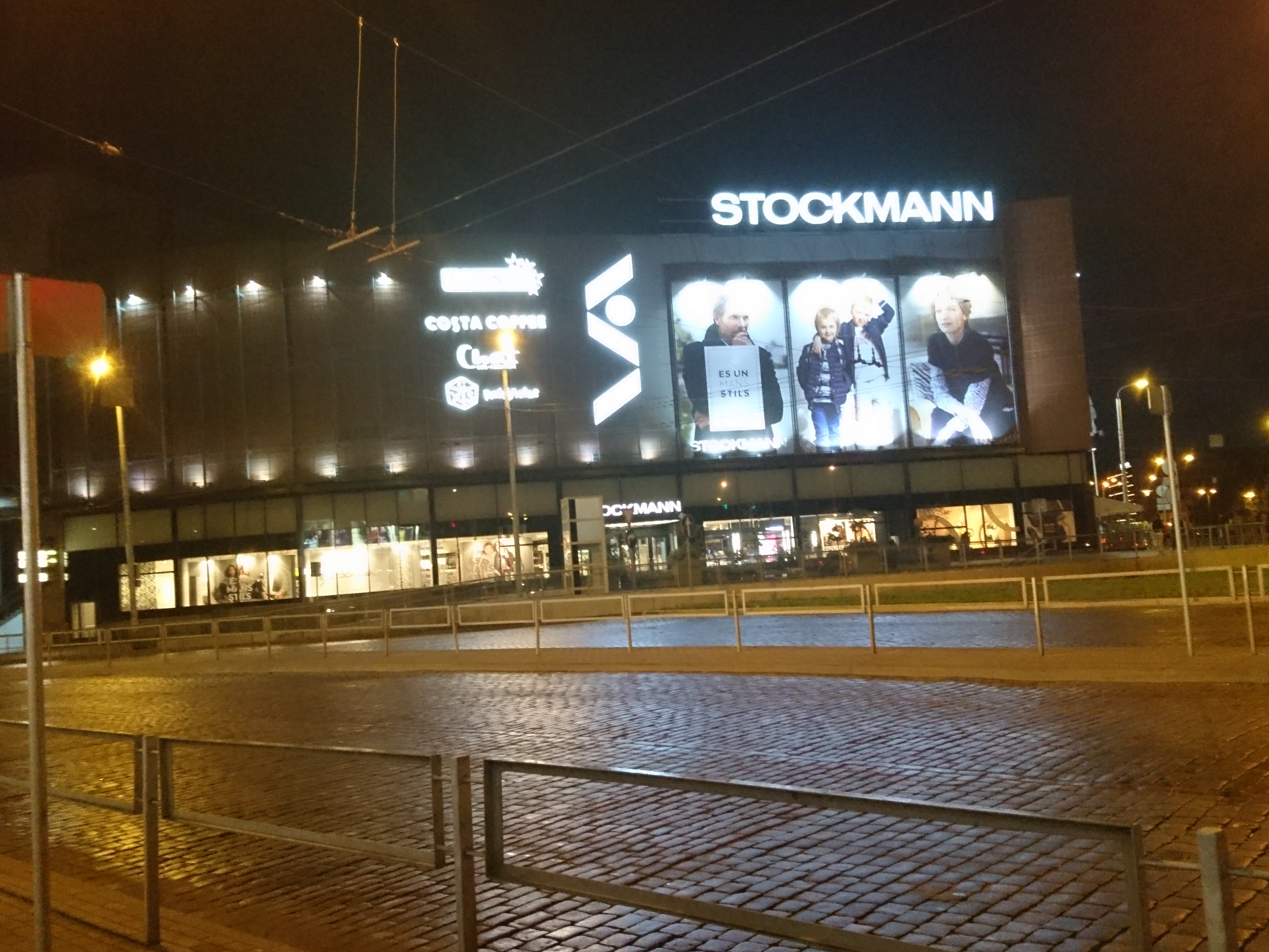 Stockmann in Riga